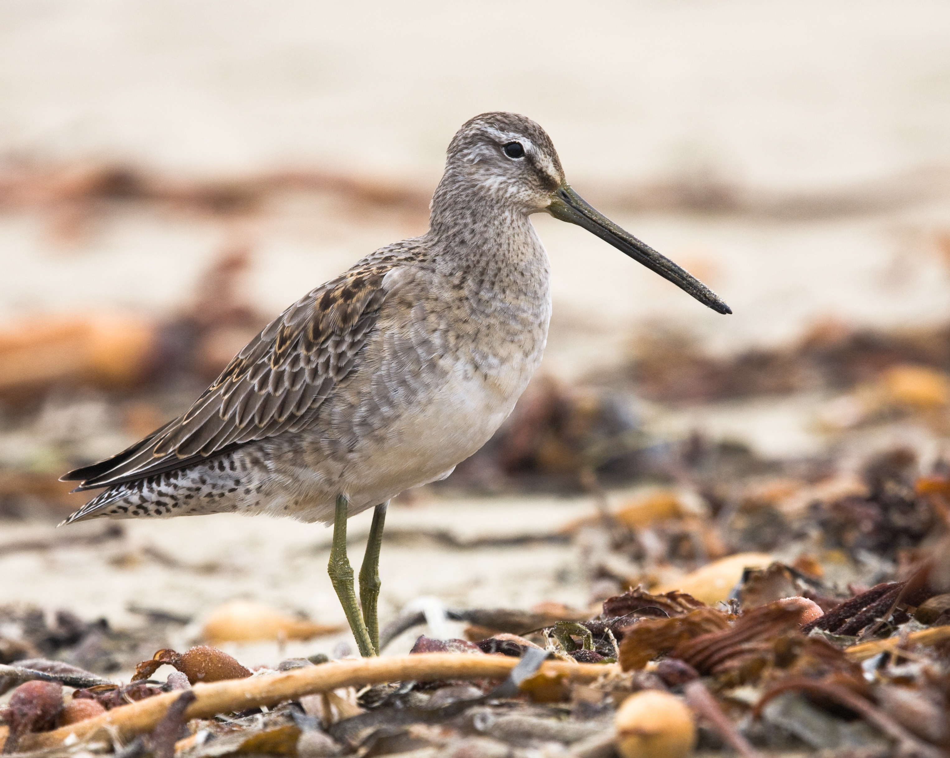 Long-billed Dowitcher, Limnodromus scolopaceus, is a medium-sized shorebird of the family Scolopacidae, as seen on Morro Strand State Beach, 28 Oct. 2008. Michael "Mike" L. Baird, Canon 5D 100-400mm IS handheld.